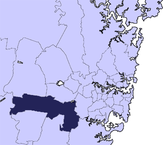 Locator Map Liverpool lga sydney.png Based on Image:Ku-ring-gai sydney.png by User:Randwicked.